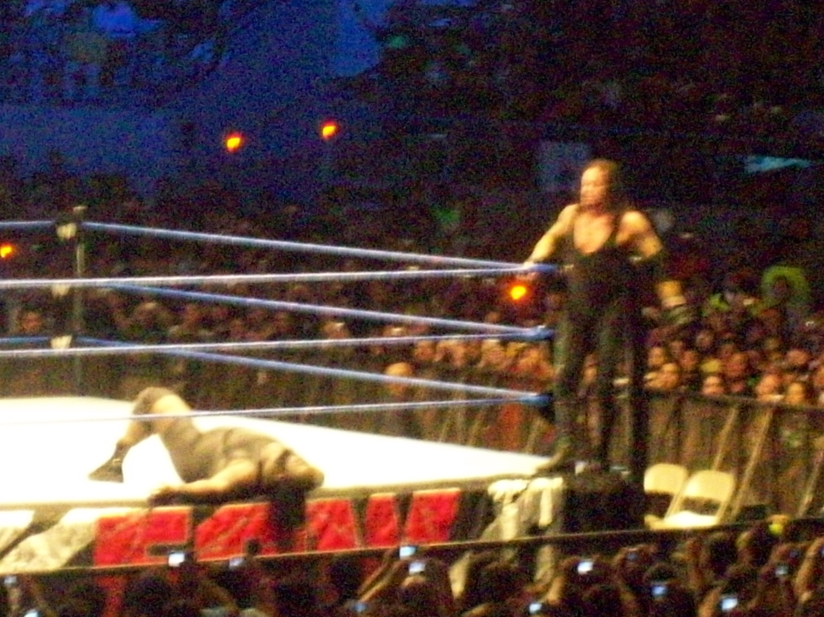 Undertaker vs. Mark Henry (Road to WrestleMania Tour, Santiago, Chile)